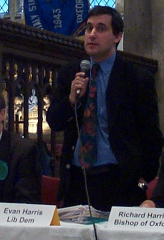 Dr Evan Harris MP, speaking at a husting in Oxford, 2005-04-26. Copyright © 2005 Kaihsu Tai.